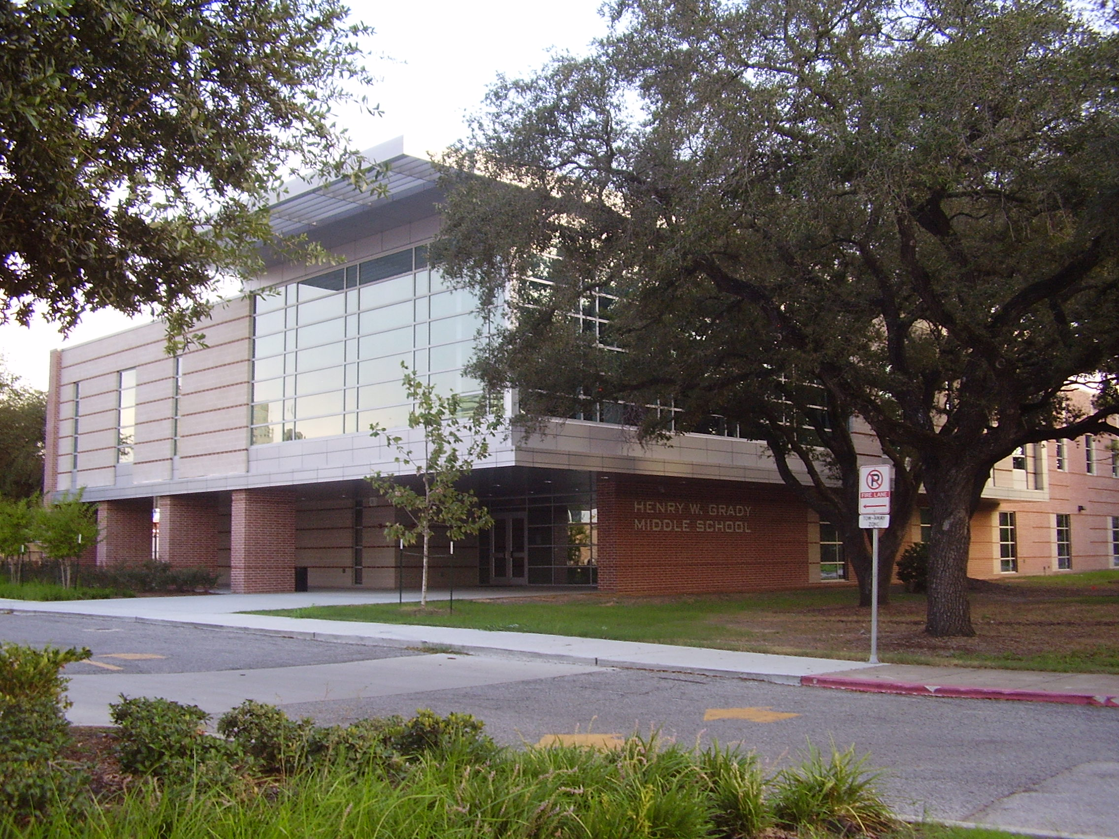 Henry W. Grady Middle School